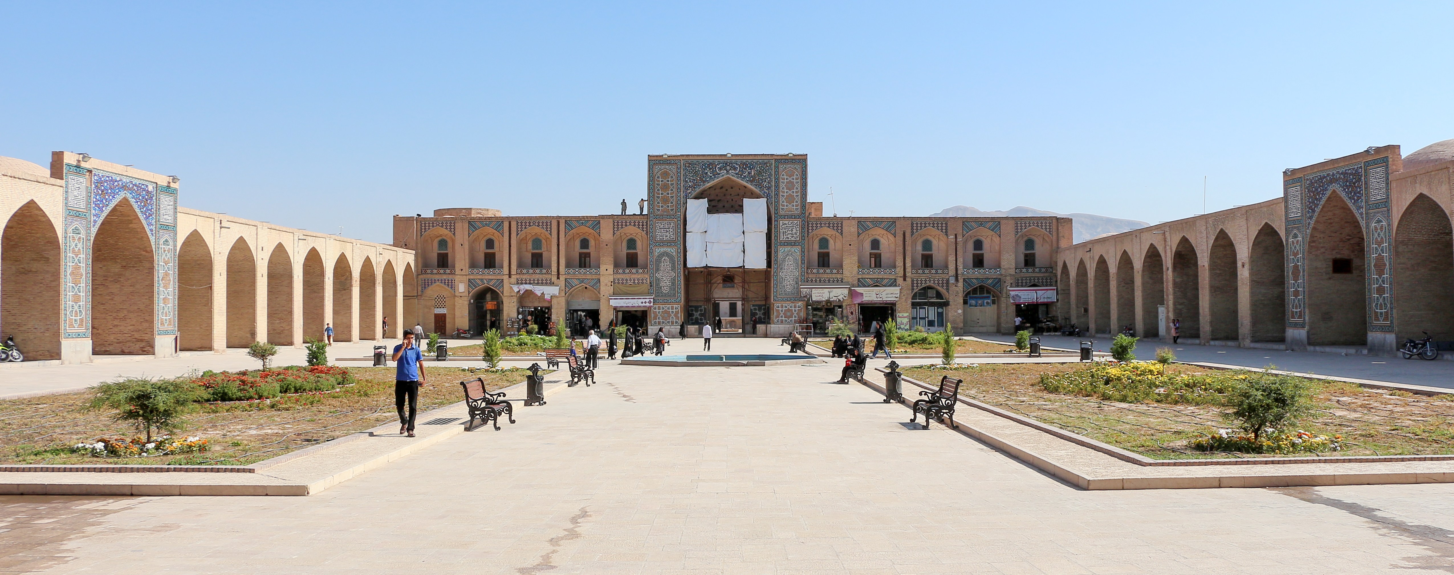 Ganjali Khan Complex, Kerman, Iran